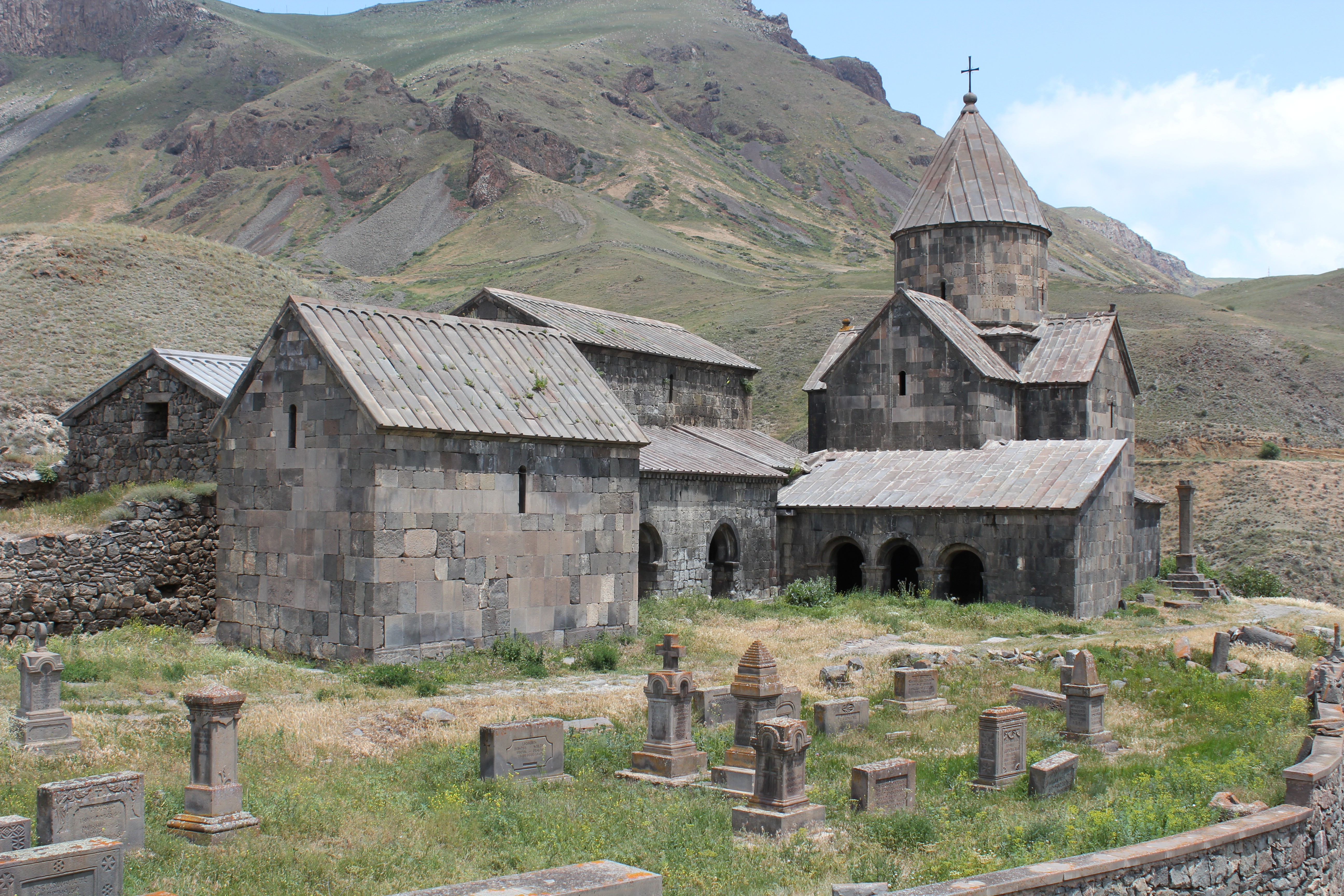 Vorotnavank Vorotnavank is a monastic complex located along a ridge overlooking the Vorotan gorge, in the Syunik Province of Armenia. The complex is surrounded by a high stone wall for defense against foreign invasions and once housed workshops, stores, a seminary, resort, cemetery and an alms-house. The main church of Surp Stepanos (St. Stephen Church) was built in 1000 by Queen Shahandukht, ruler of the lands of Syunik. Prior to the construction of the church stood a shrine to Saint Grigor Lusavorich (St. Gregory the Illuminator). Four sacristies were placed at the southeastern end of S. Stepanos. The adjoining church of Surp Karapet (St. John the Baptist) was constructed in 1006-1007 by Queen Shahandukht's son Sevada. The structure has a triple-arched portico at the front façade. A circular drum and a recently reconstructed dome rest above the cruciform plan of the church. (source